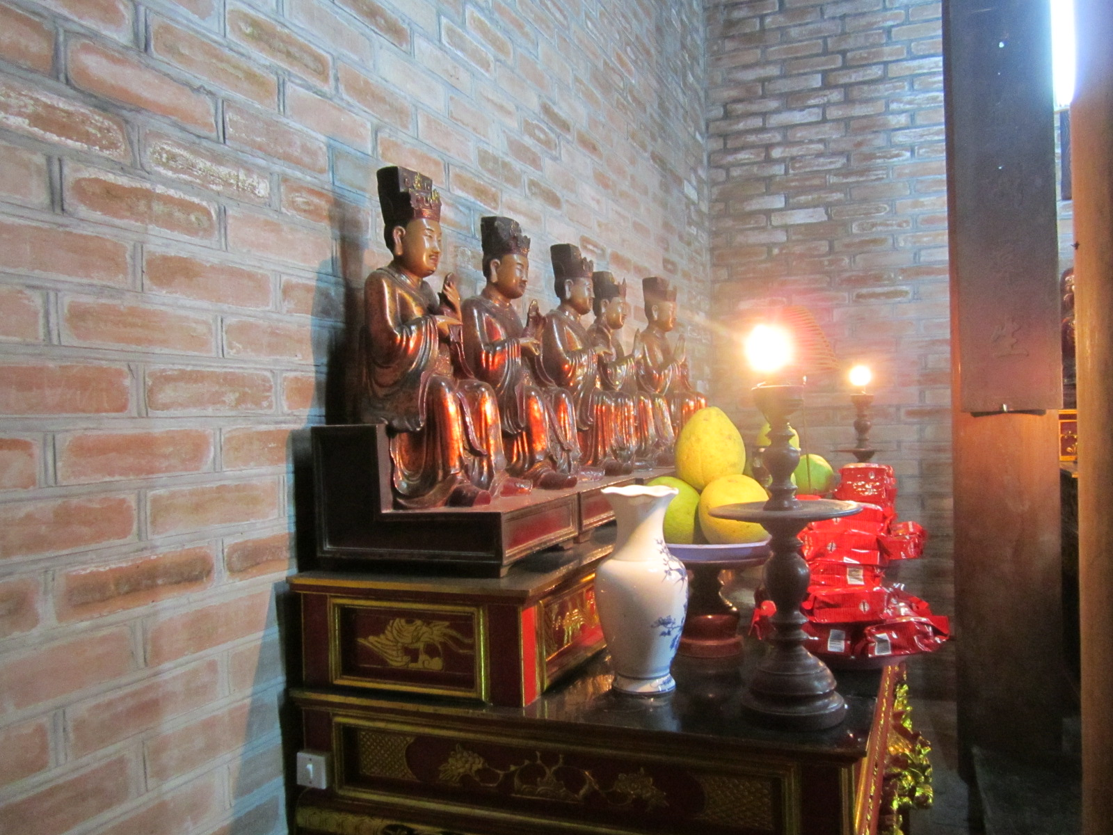 Five of the Ten Kings of Hell (Diêm vương) at Bà Đá Buddhist Temple in Hanoi